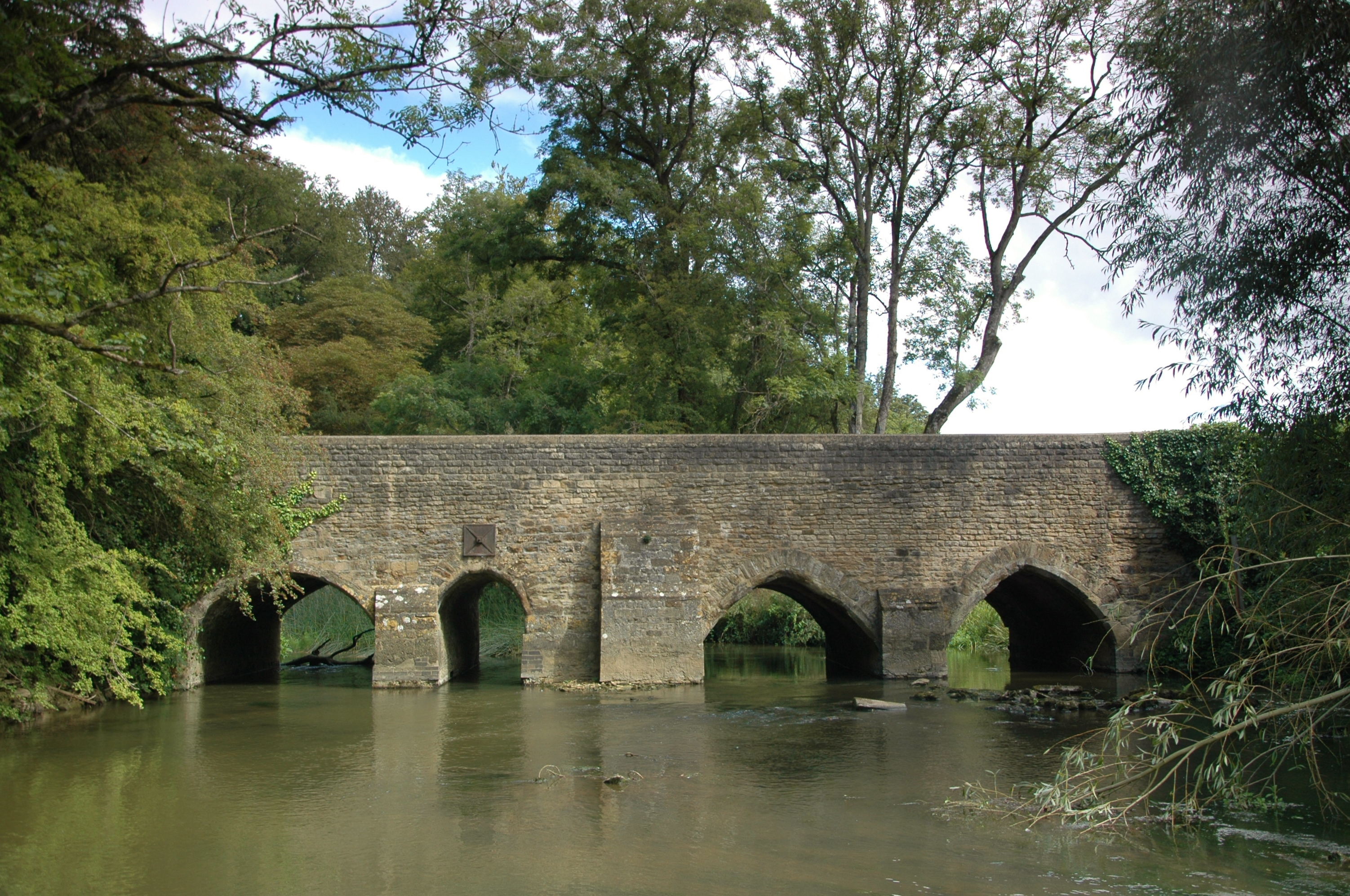 Medieval road bridge over the River Cherwell at Lower Heyford, Oxfordshire